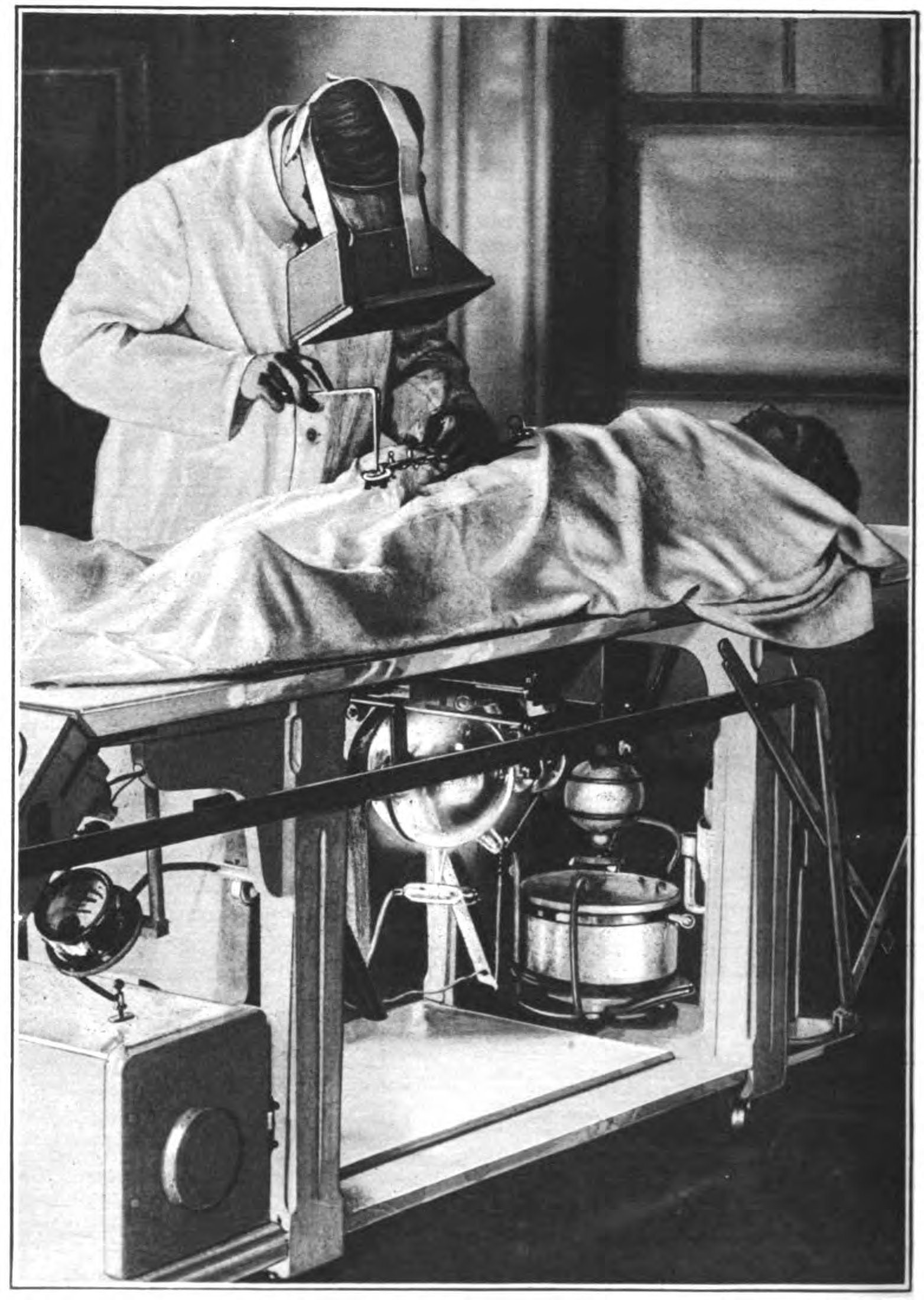 Operation on a wounded soldier during World War 1 with the surgeon using a fluoroscope to locate the bullets. An early Crookes x-ray tube visible under the table emits a beam of x-rays vertically through the patient's body. The surgeon wears a large fluoroscope on his face, a screen coated with a fluorescent chemical such as calcium tungstate which glows when x-rays strike it. The x-ray image of the patient's body appears on the screen, with the bullet fragments appearing dark. Although the surgeon is wearing gloves, little protection against radiation appears to be used. X-rays were discovered in 1895, and World War 1 saw the first major use of x-rays in wartime. France and the US sent trucks equipped with early x-ray machines to the front. The photo is credited to Dr. J. P. Hoguet, a surgeon at the Roentgenographic Dept. of the American Ambulance Hospital at Neuilly, France. Caption:Below the operating table is the X-Ray tube. The surgeon wears a fluoroscope. The X-Ray tube and fluoroscope combined enable him to locate deep-seated bullets.